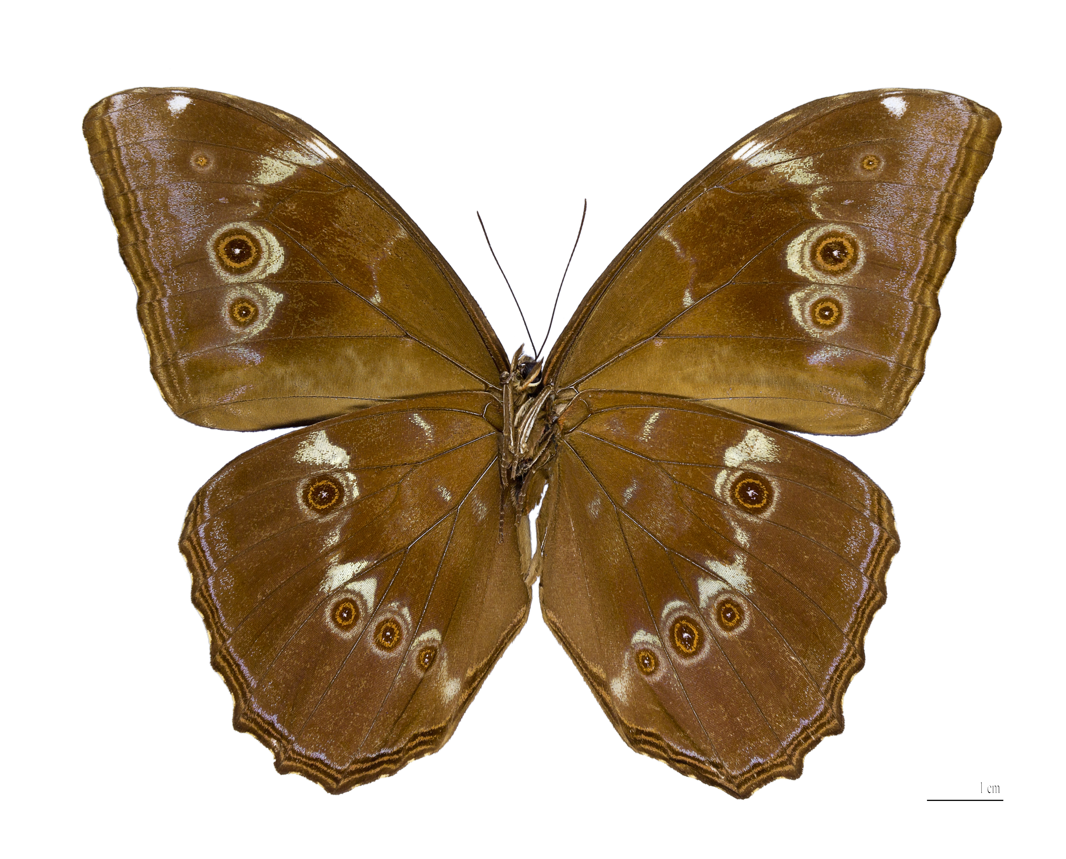 Male - Ventral side Locality: Pará, Brasil